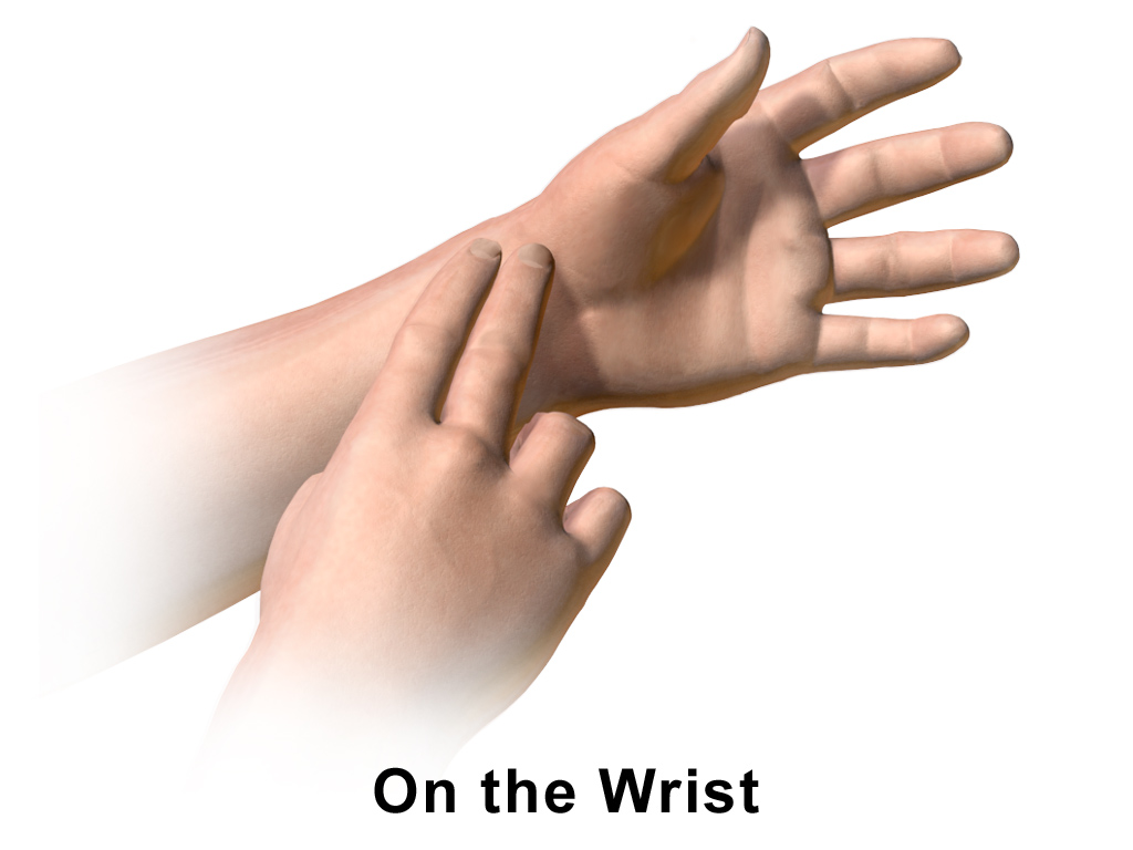 An illustration depicting someone checking their pulse via their wrist.